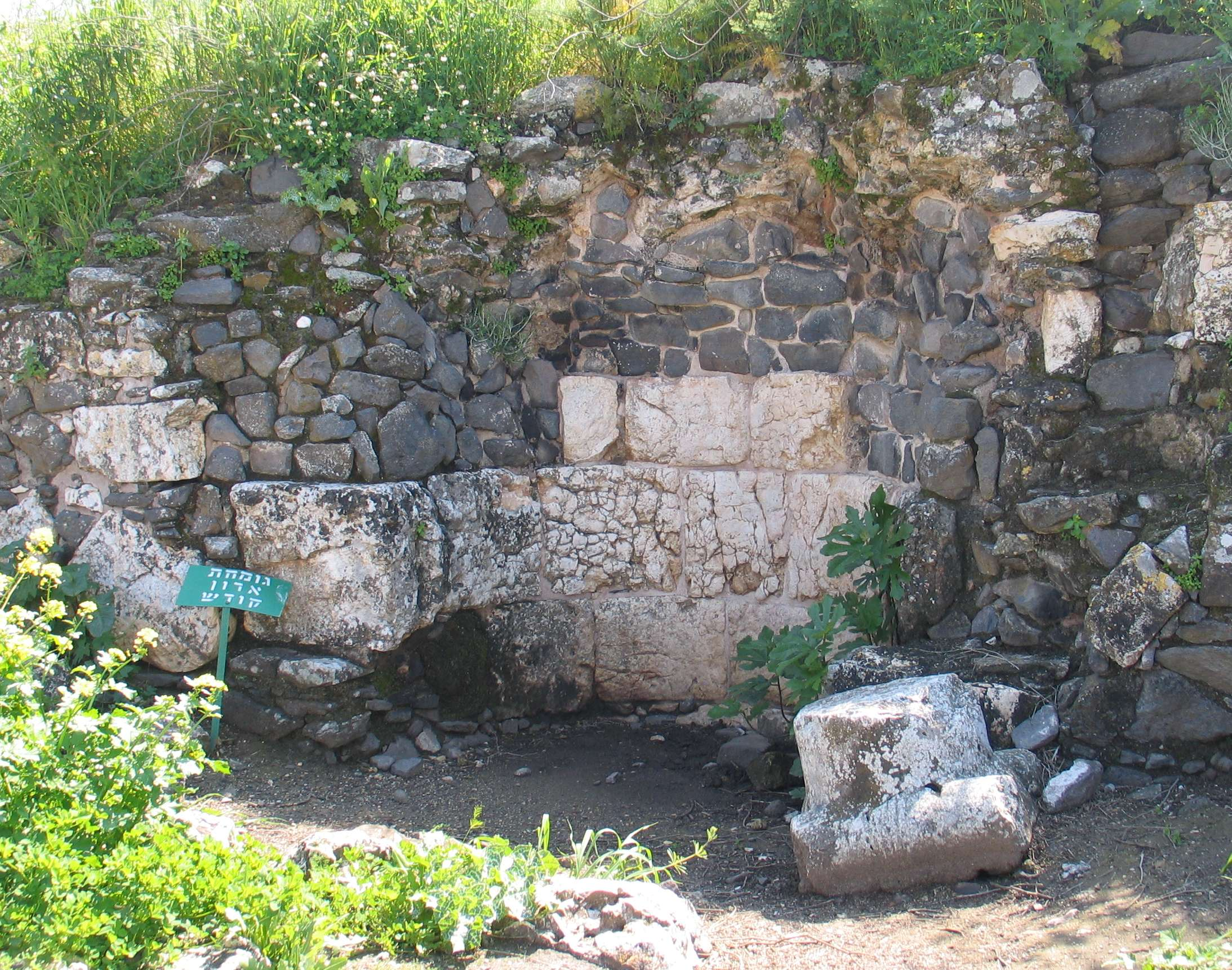 Ancient synagogue at Arbel, Israel.